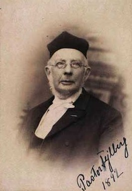 Nikolai Laurentius Feilberg (1806-1899), Danish priest